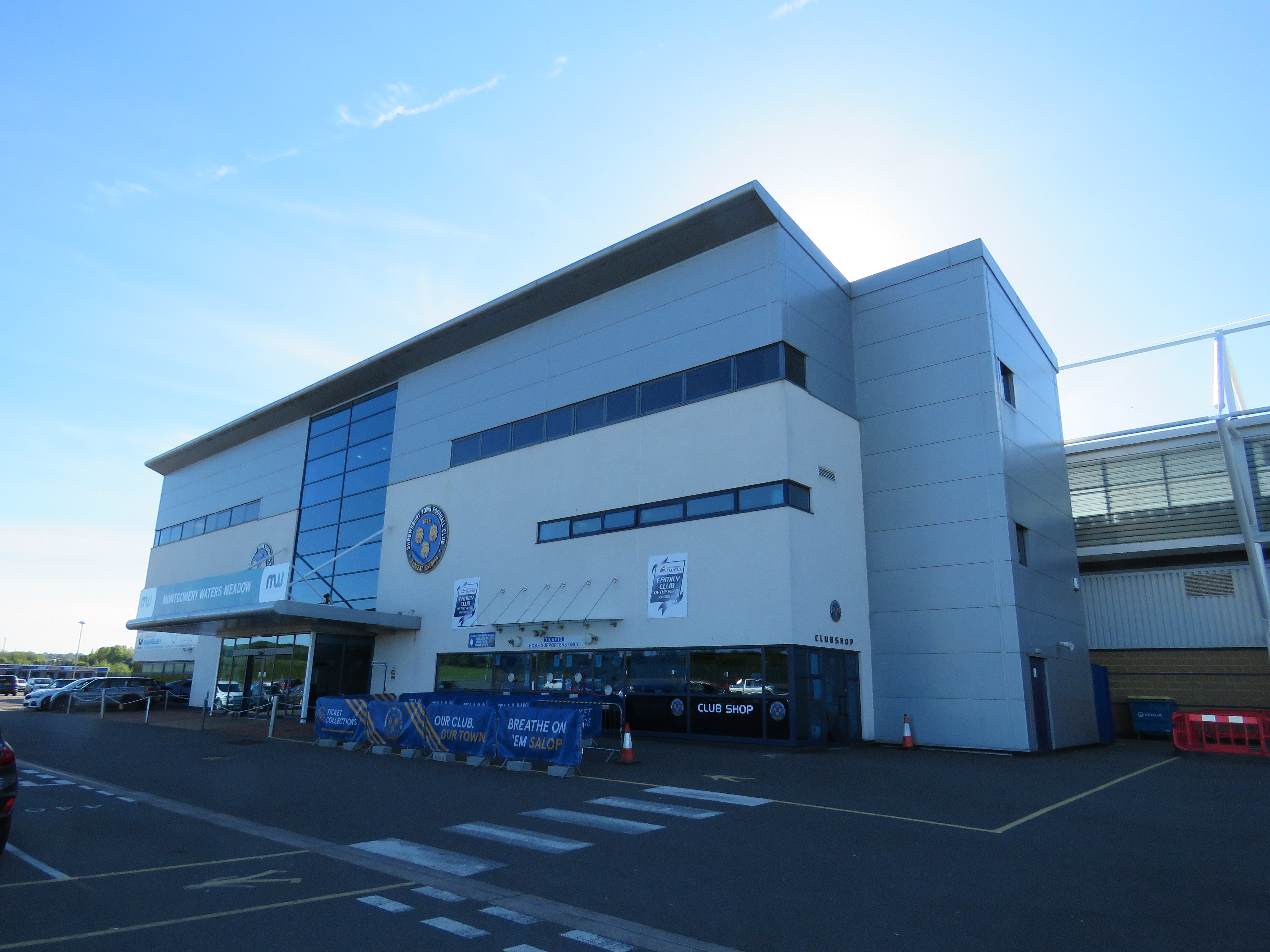 the New Meadow, Shrewsbury Town Football Club